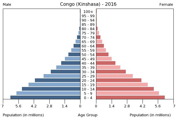 The population pyramid of the Democratic Republic of the Congo illustrates the age and sex structure of population and may provide insights about political and social stability, as well as economic development. The population is distributed along the horizontal axis, with males shown on the left and females on the right. The male and female populations are broken down into 5-year age groups represented as horizontal bars along the vertical axis, with the youngest age groups at the bottom and the oldest at the top. The shape of the population pyramid gradually evolves over time based on fertility, mortality, and international migration trends.